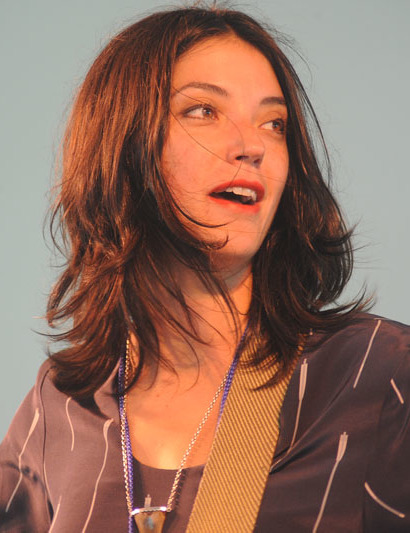 Sharon Van Etten (Newport Folk Festival 2012)